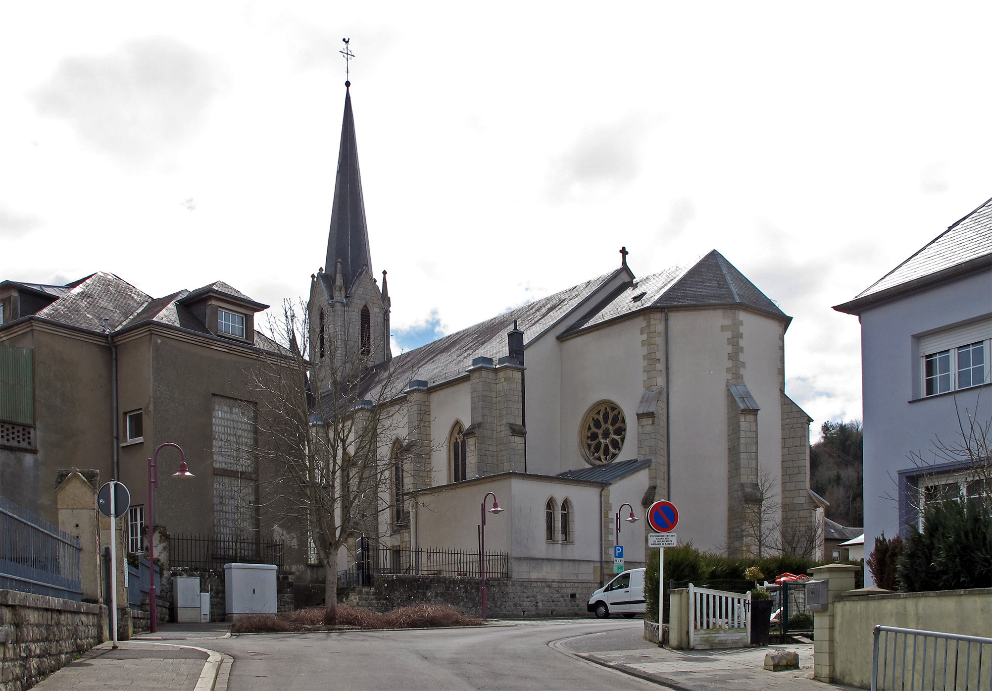 Church of Rodange, Luxembourg